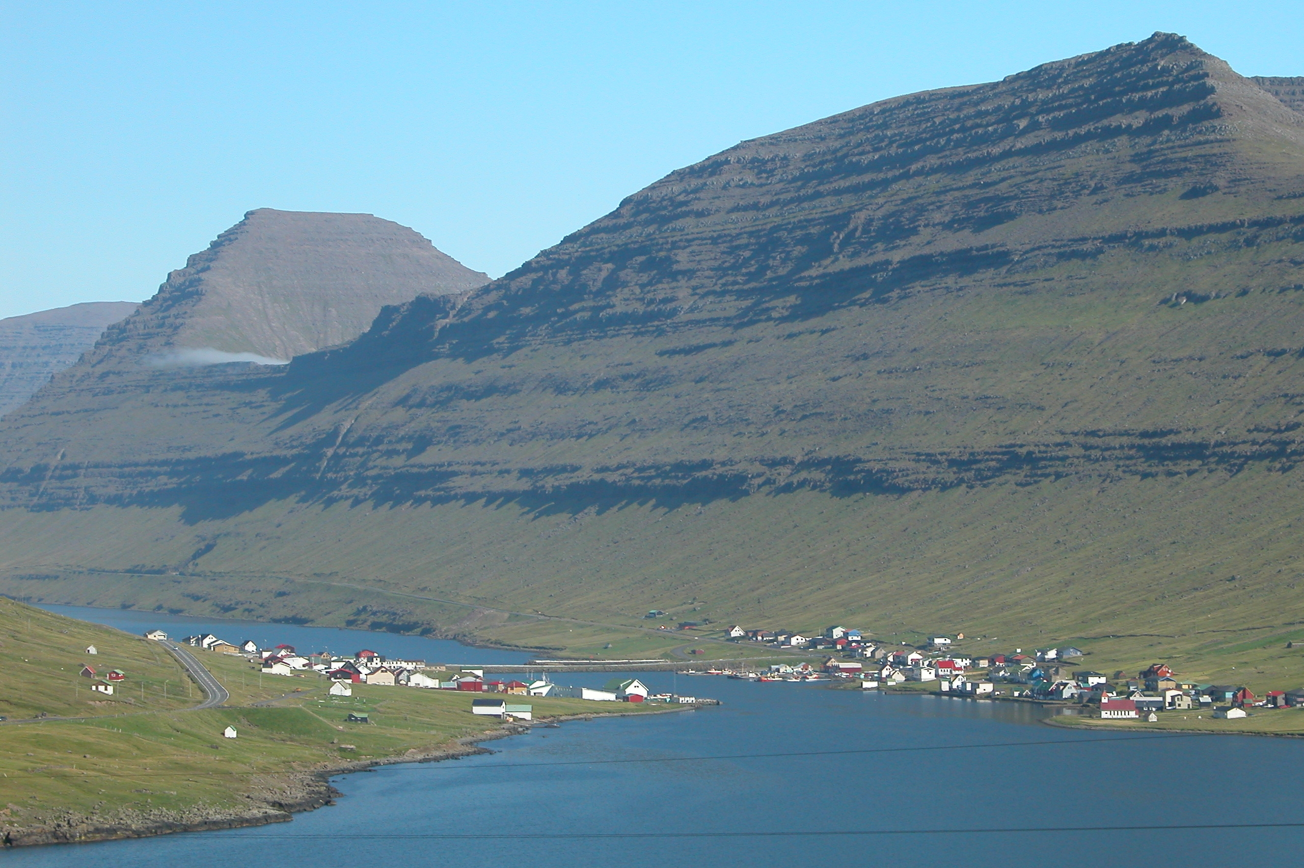 Norðdepil on Borðoy (left) and Hvannasund on Viðoy (right), Faroe Islands.